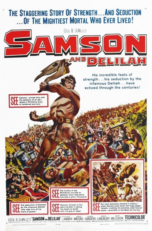 Original theatrical release poster for Samson and Delilah (1949).